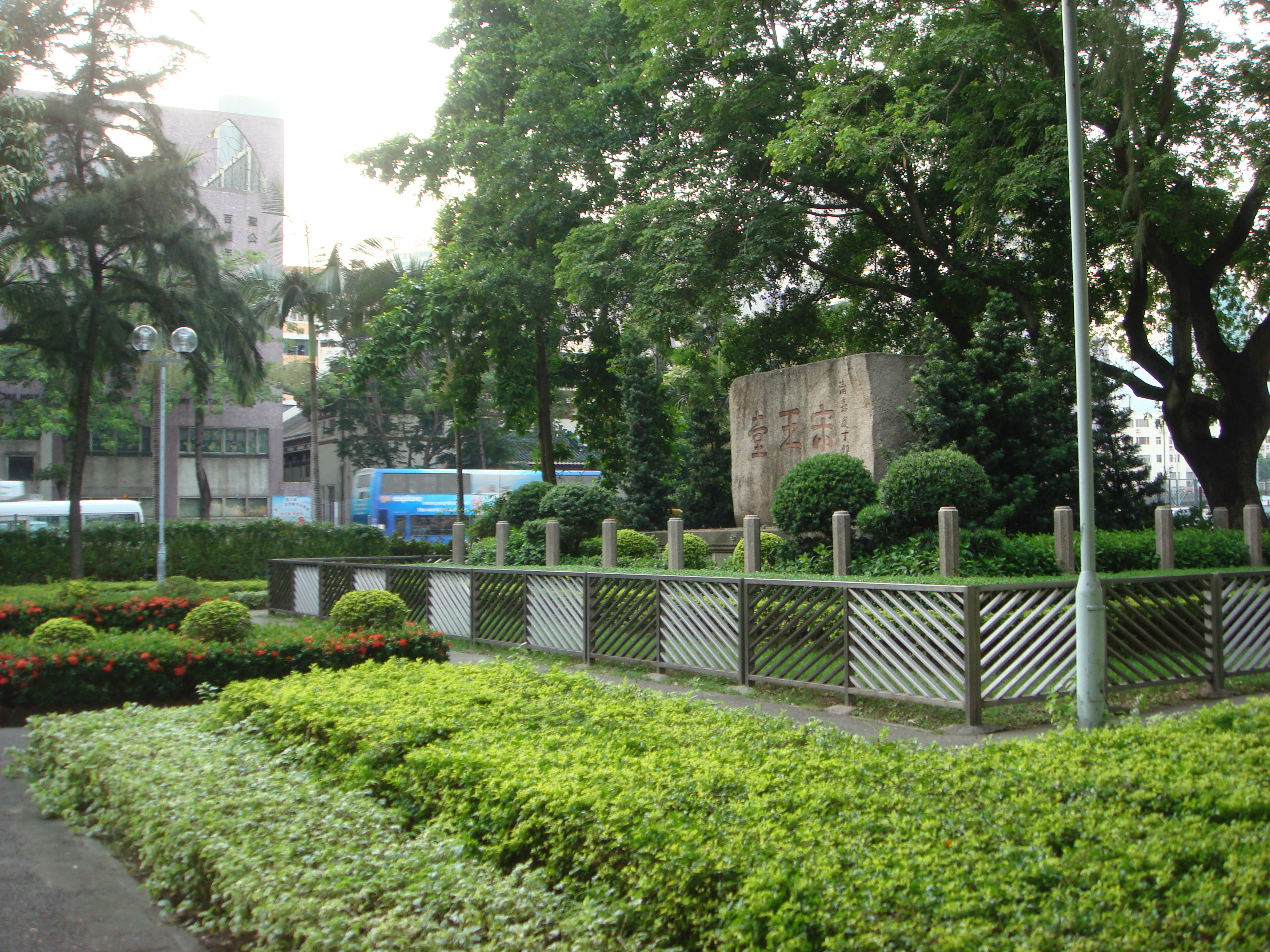 Sung Wong Toi, side view